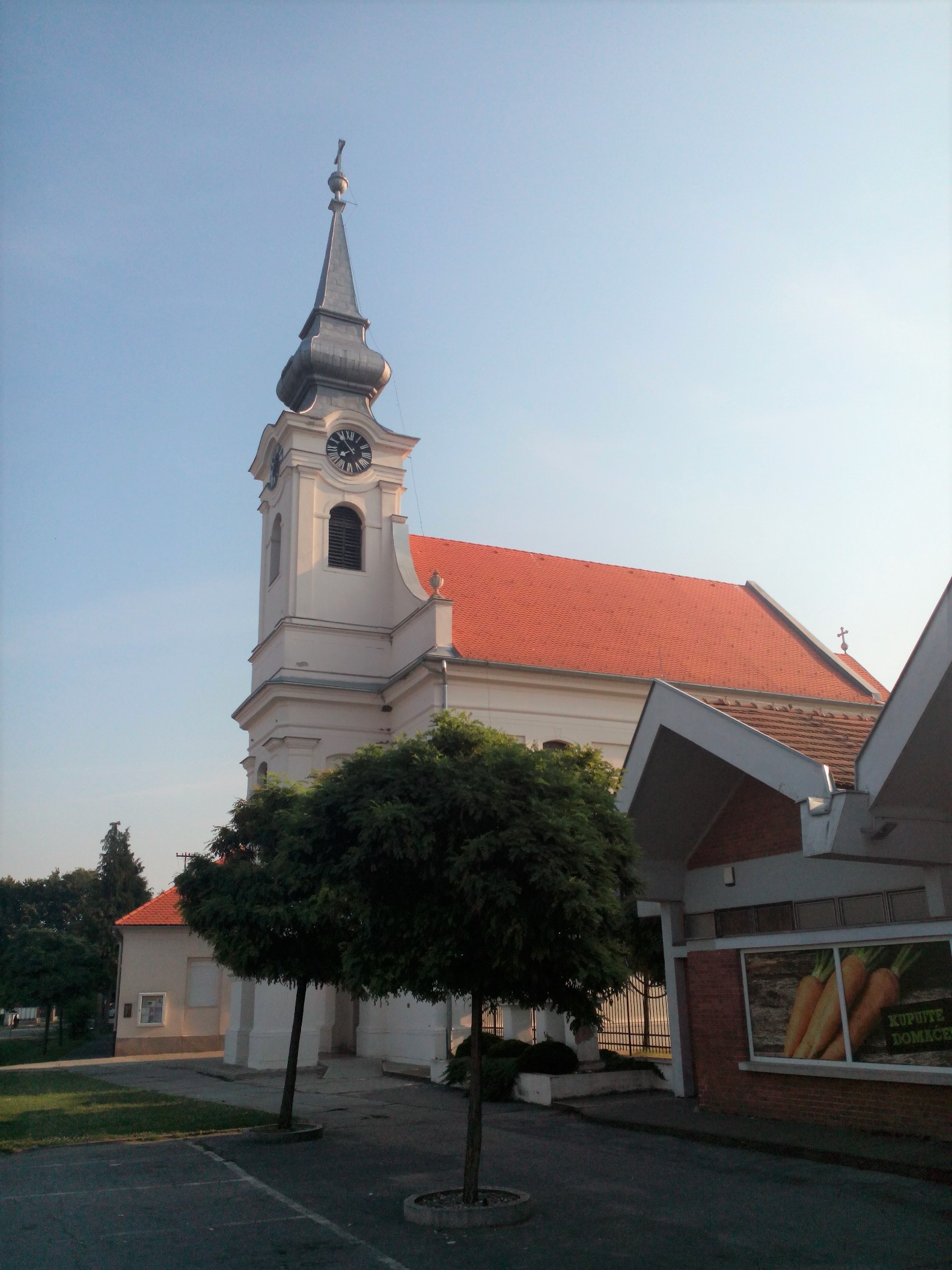 St. Peter's Parish Church, Petrijevci.